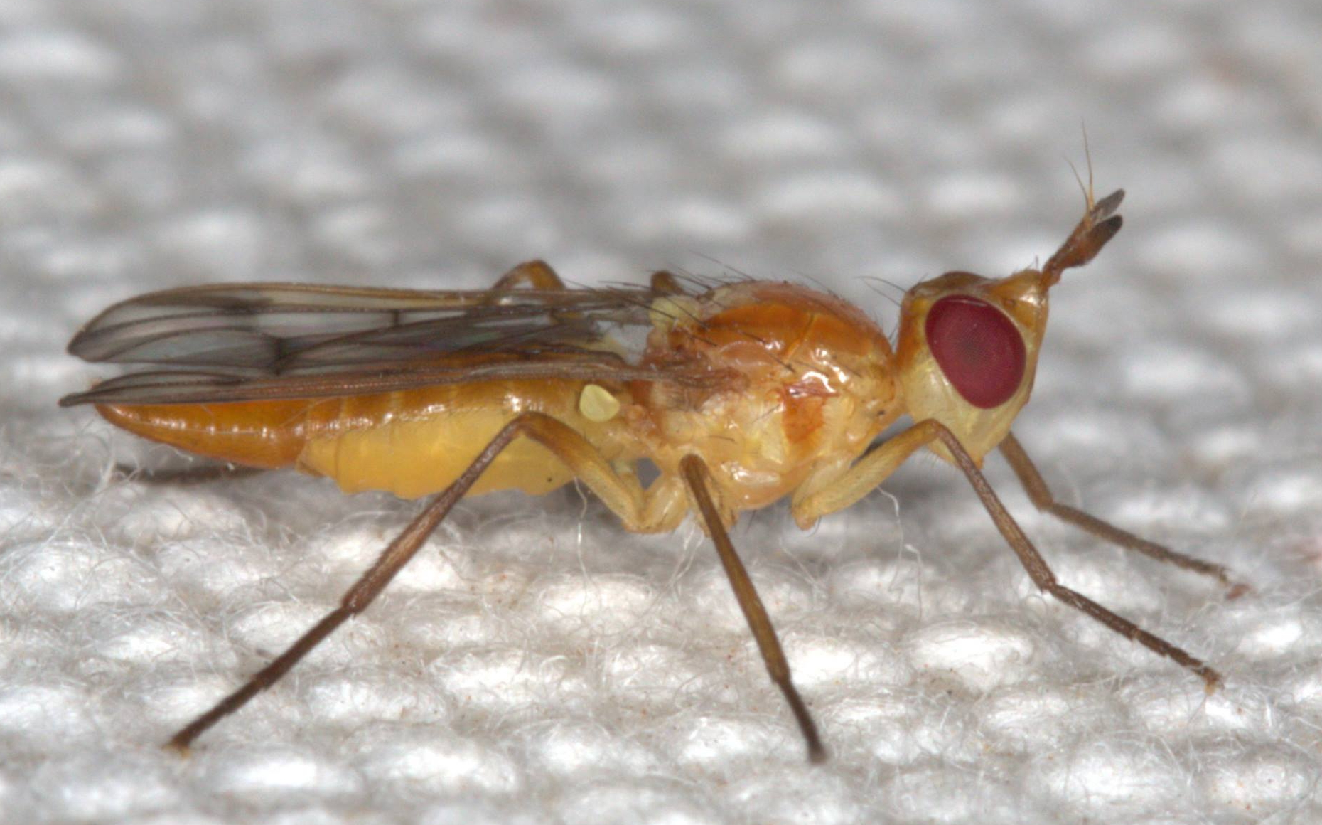 Lateral aspect of a female of a member of the family Pyrgotidae